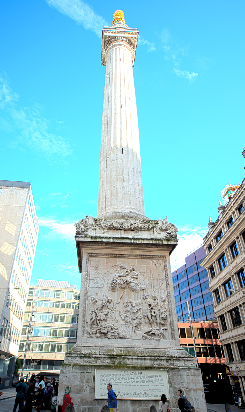 The Monument (HDR)